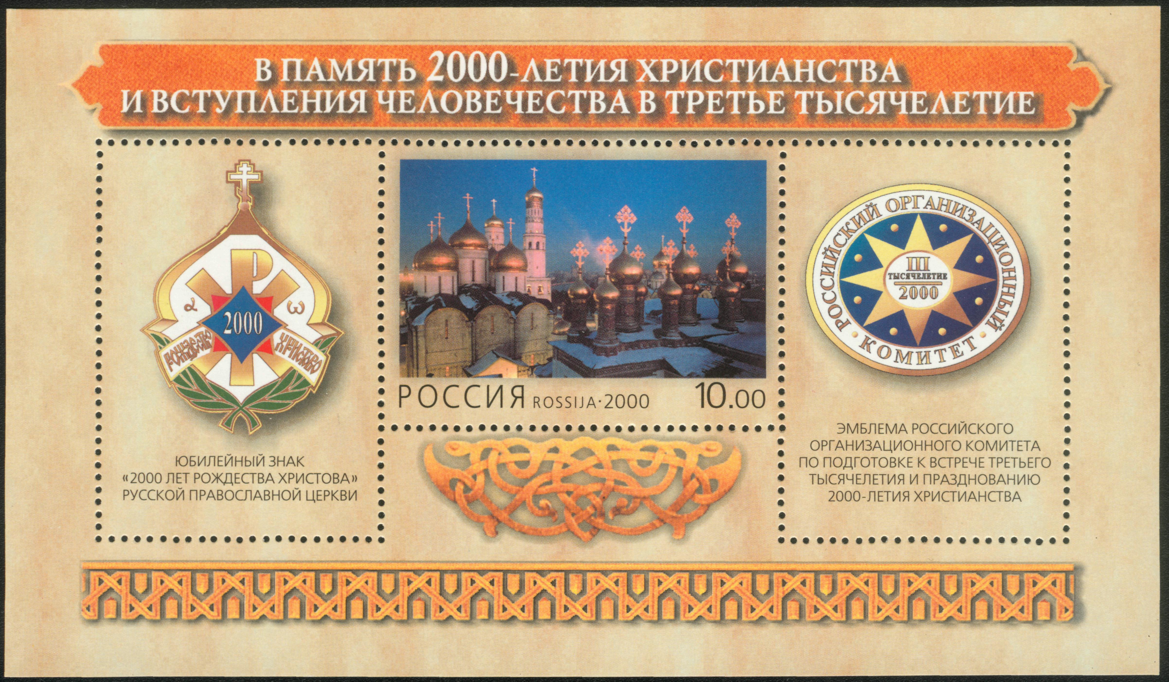 In memory of 2000 years of Christianity and entering of mankind into the third Millenium, 2000